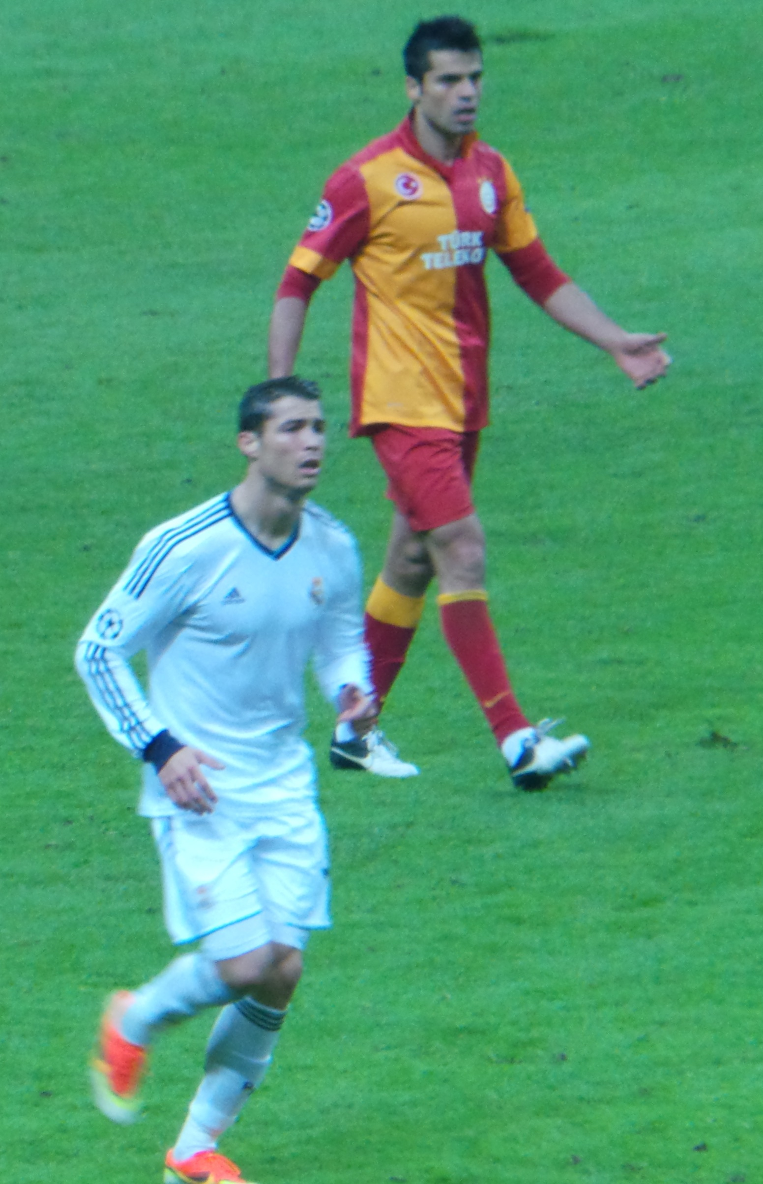 Gökhan Zan with Cristiano Ronaldo